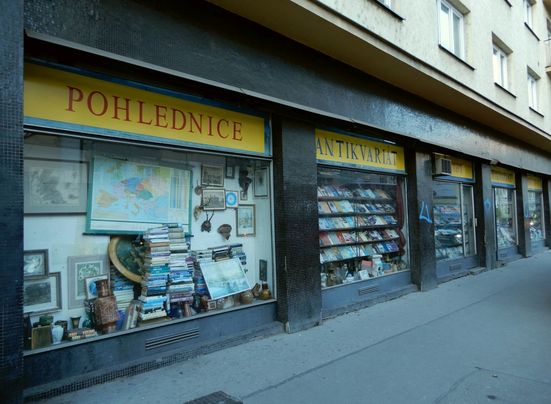 The largest Czech antiquariatː Novák's shop in Dělnická street, Prague 7- Holešovice